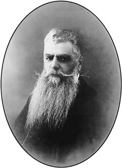 Mikhail Aleksandrovich Stakhovich (1861-1923) a Russian politician.